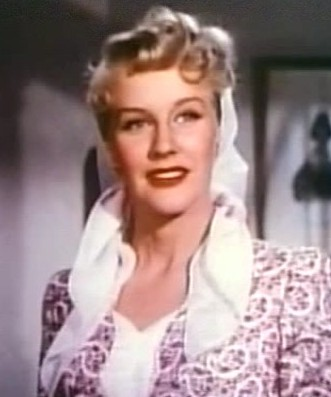 Cropped screenshot of Dorothy Patrick from the film Till the Clouds Roll By.